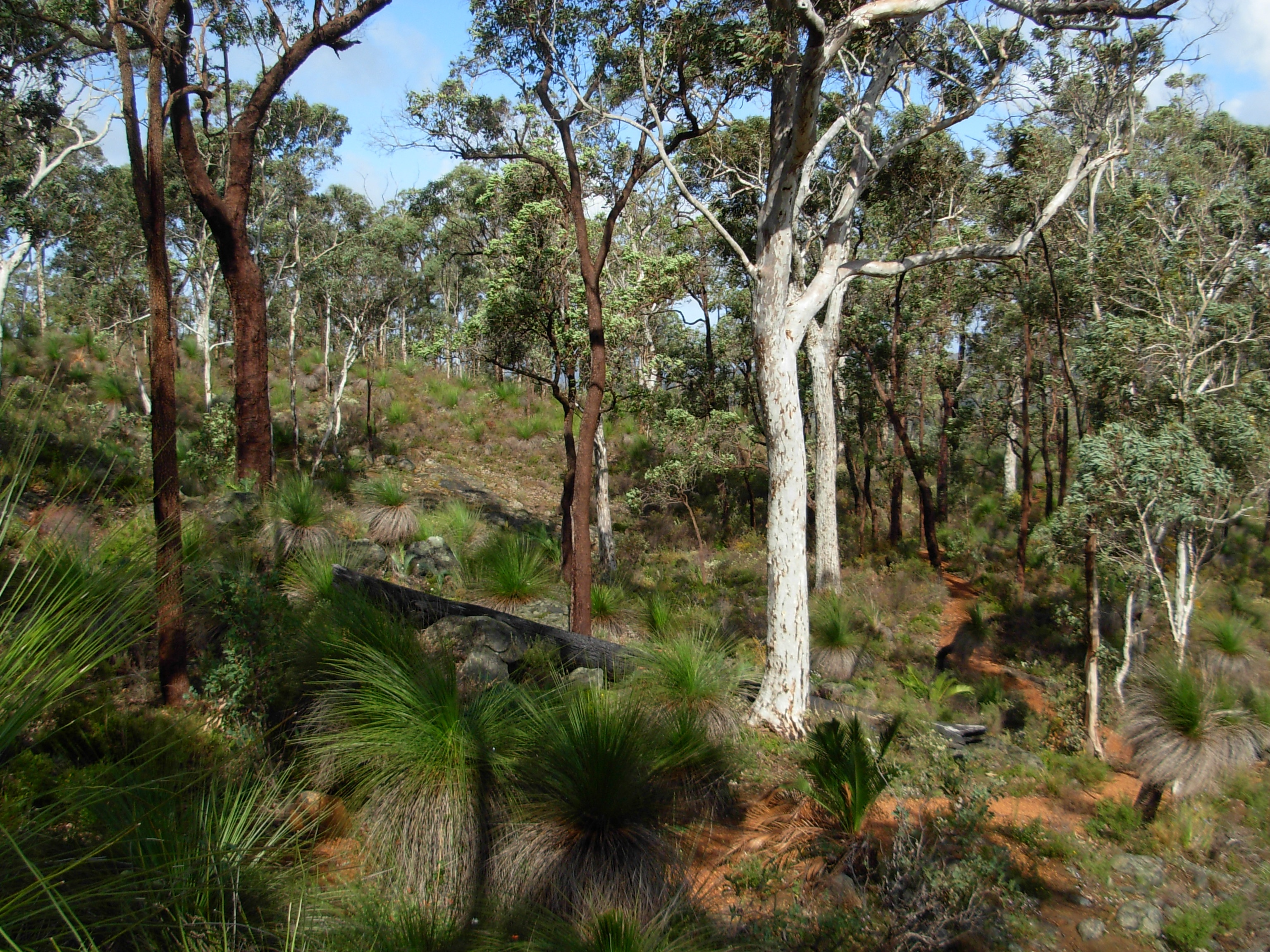 Helena river upper valley hillside in the Beelu National Park, Western Australia